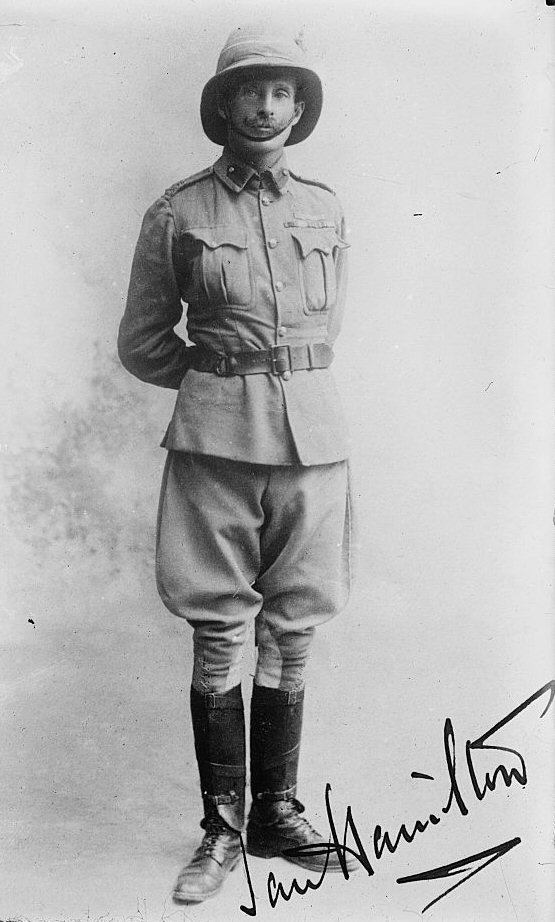 Ian Standish Monteith Hamilton, a general in the British Army